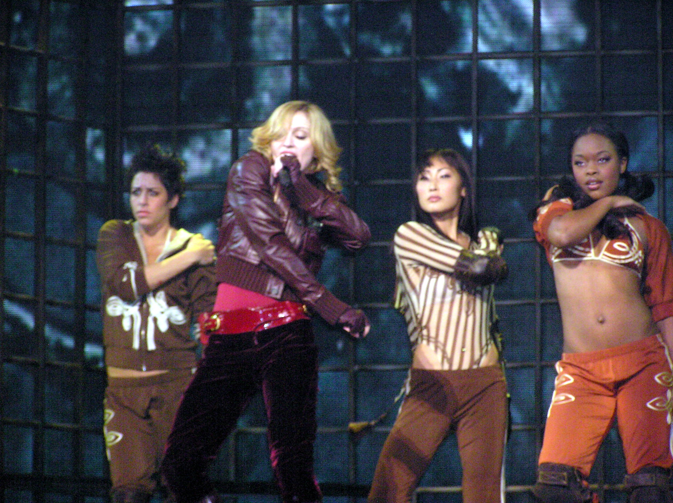 Madonna Concert in Fresno